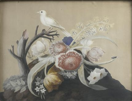 Canary perched on a bough with yellow and white tulips, anemones, hyacinth and daffodils with a bee.